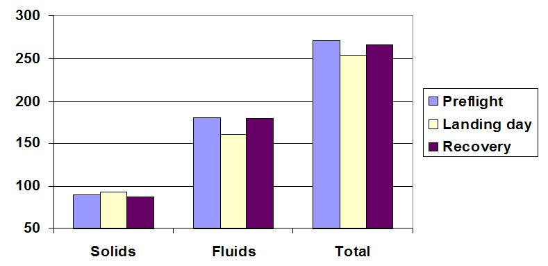 Figure 6. Model predictions of myocardial interstitial fluid spaces preflight, on landing day, and after landing day. Other information Page 12